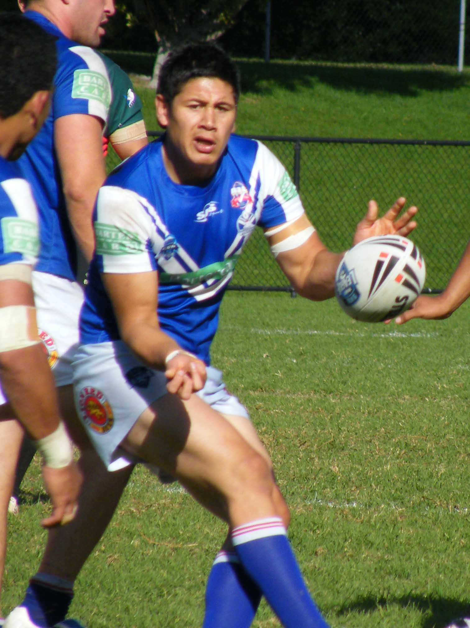 Jeremiah Pai of the Auckland Vulcans